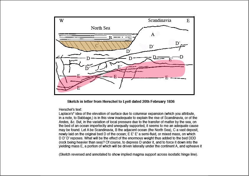 The original Herschel sketch was sent to Charles Lyell from Cape Town early in 1836. This version has been reversed and lightly annotated to emphasise its close correspondence with recent interpretations of North Sea Geology.